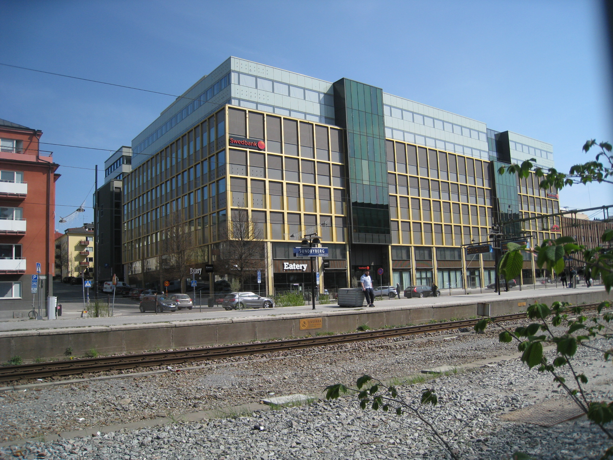 Swedbank Head Office 2, Järnvägsgatan 18, Sundbyberg, April 2019.